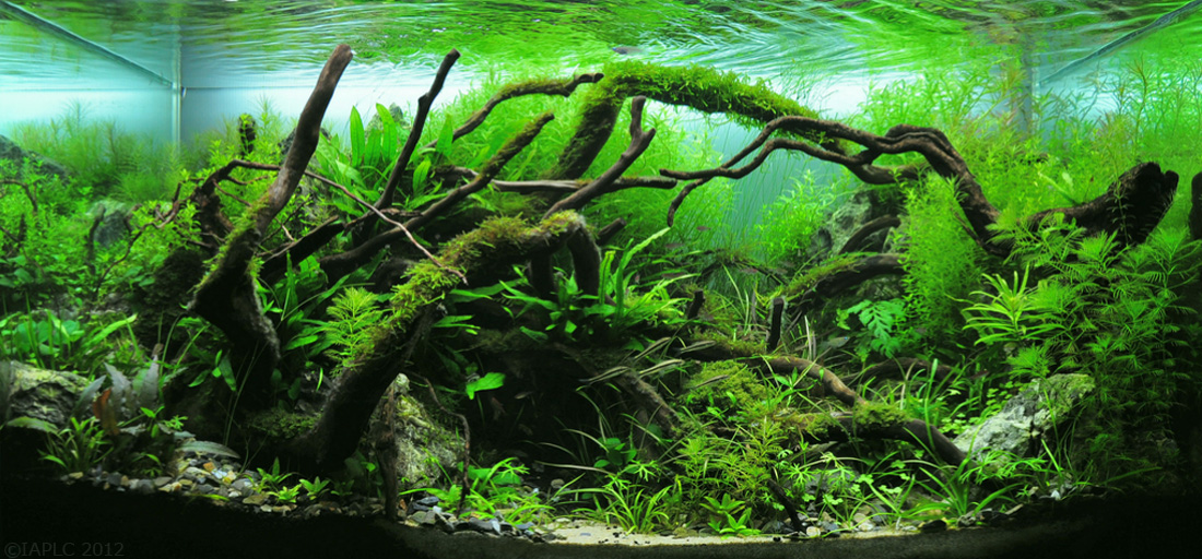 Nature style aquascape, from The International Aquatic Plants Layout Contest 2012 by Duc Viet Bui